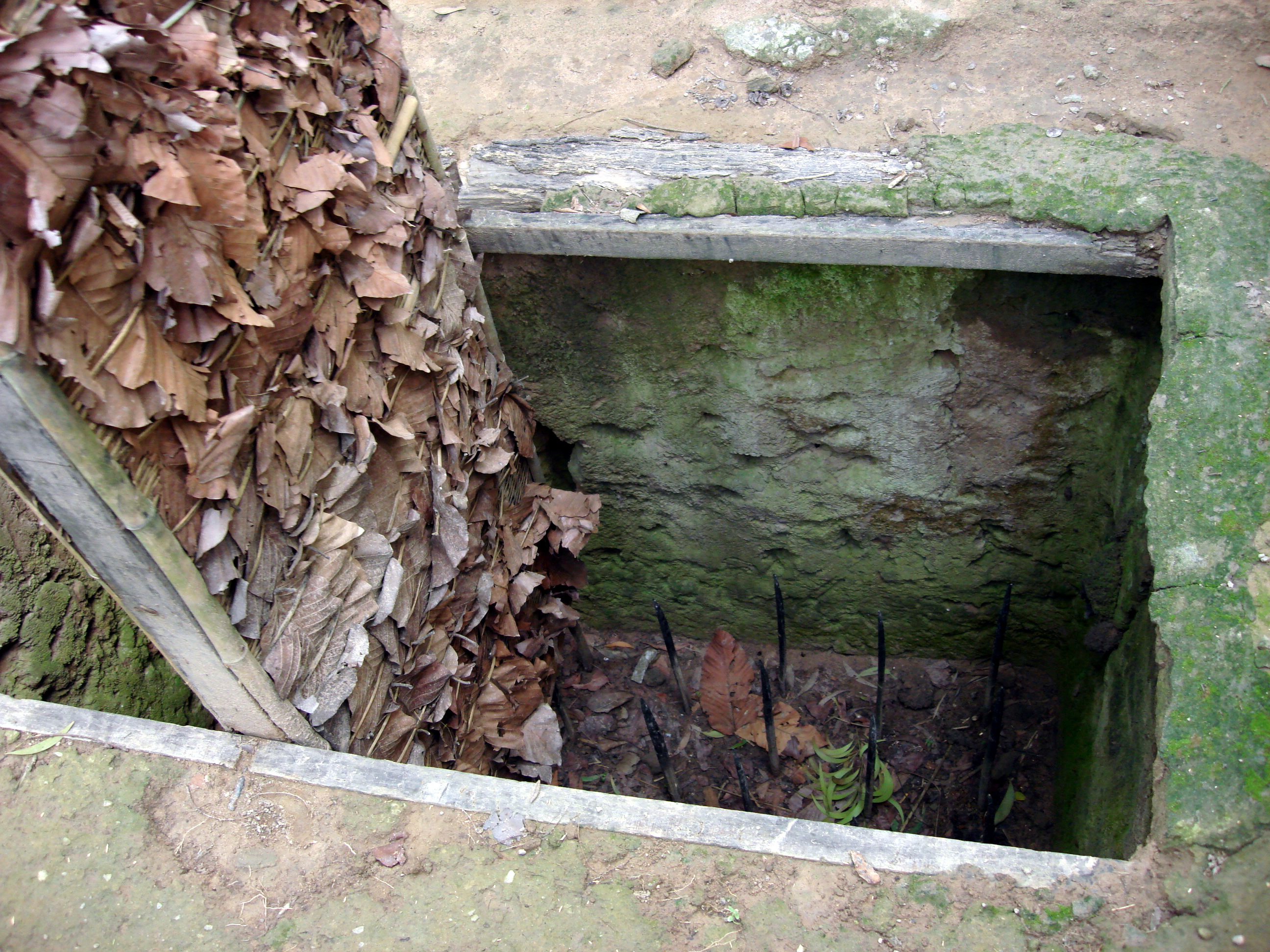 The tunnels of Củ Chi are an immense network of connecting underground tunnels located in the Cu Chi district of Ho Chi Minh City, Vietnam, and are part of a much larger network of tunnels that underlie much of the country. The Củ Chi tunnels were the location of several military campaigns during the Vietnam War, and were the National Front for the Liberation of South Vietnam's base of operations for the Tết Offensive in 1968. The tunnels were often rigged with explosive booby traps or punji stake pits. The two main responses in dealing with a tunnel opening were to flush the entrance with gas or water to force the guerillas into the open, or to toss a few grenades down the hole and “crimp” off the opening. The clever design of the tunnels along with the strategic use of trap doors and air filtration systems rendered American technology ineffective.